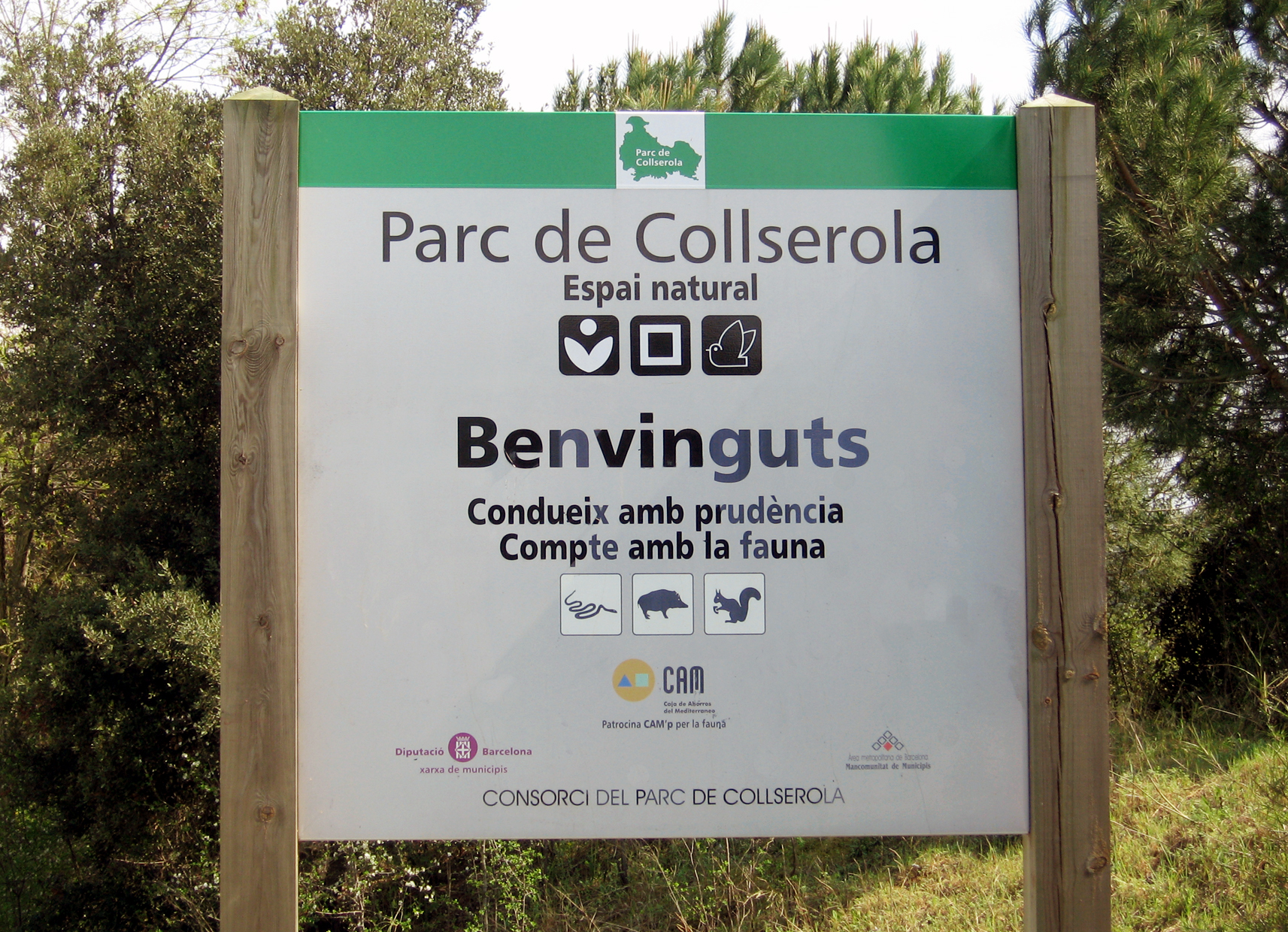 The “Parc de Collserola” at the Serra de Collserola (Catalonia).